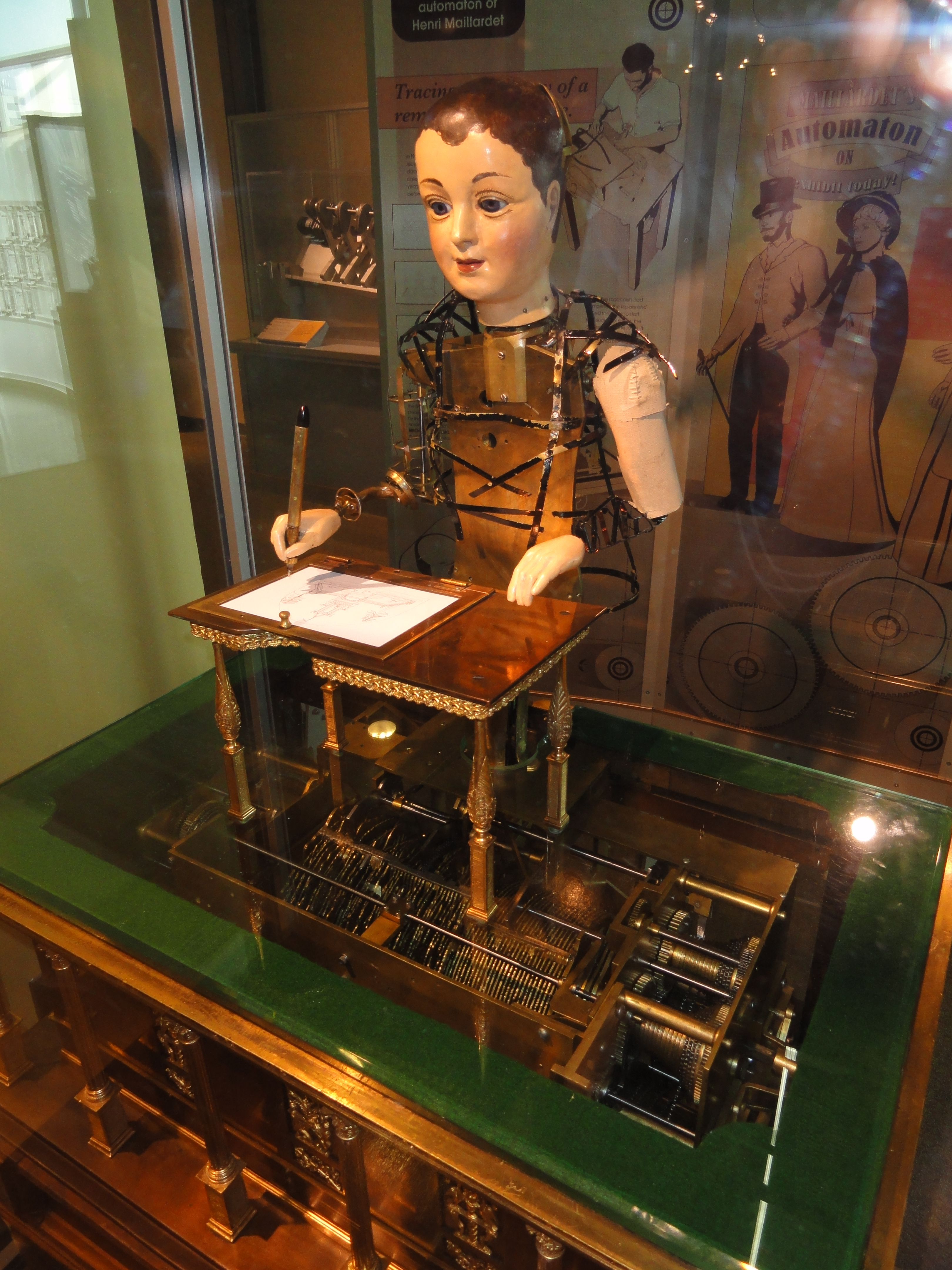 Exhibit in the Franklin Institute, Philadelphia, Pennsylvania, USA.